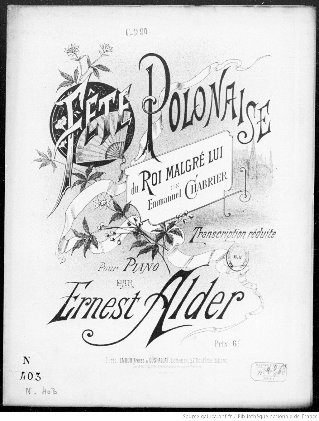 Cover of transcription of Fête polonaise du Roi malgré lui (Emmanuel Chabrier) by Ernest Alder illustration by Louis Denis (1890)